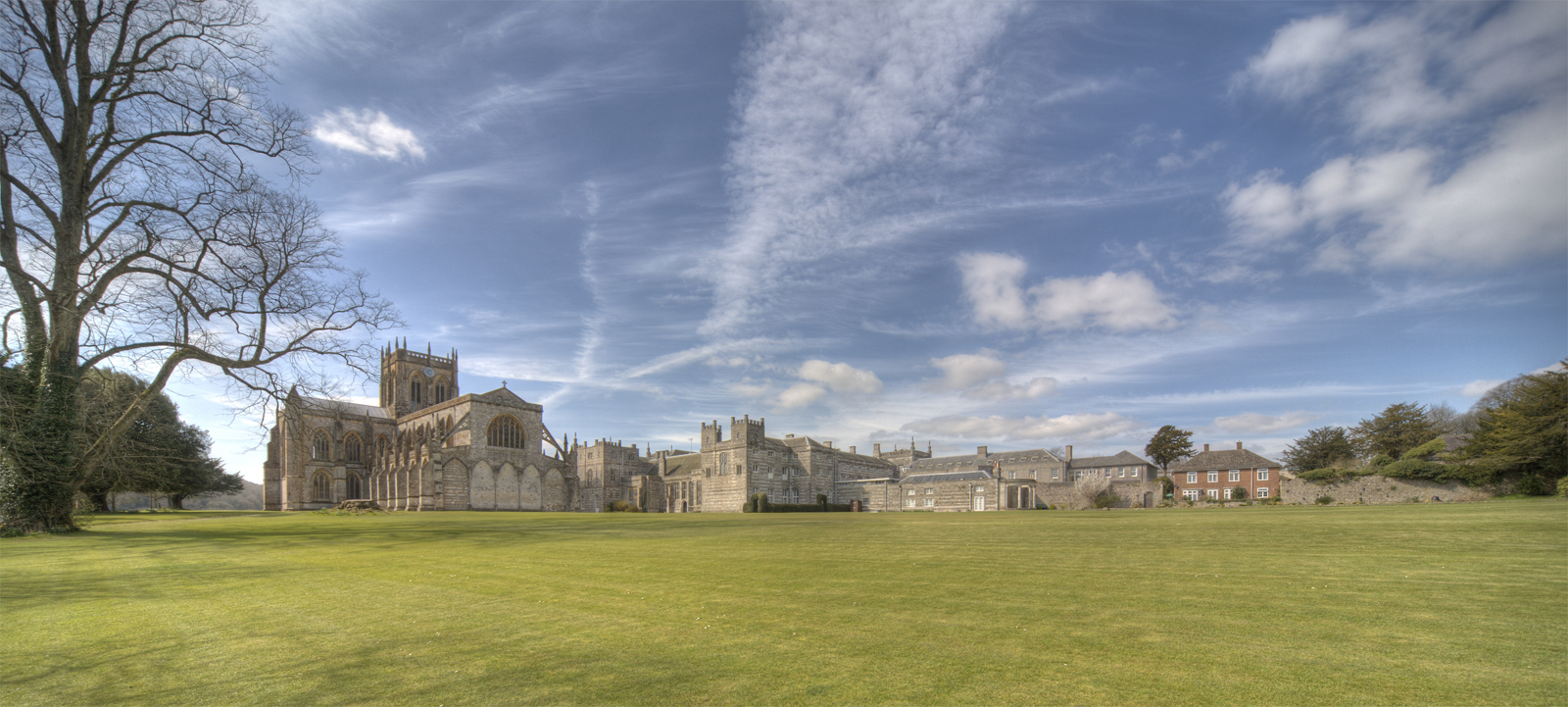 Milton Abbey, Panorama